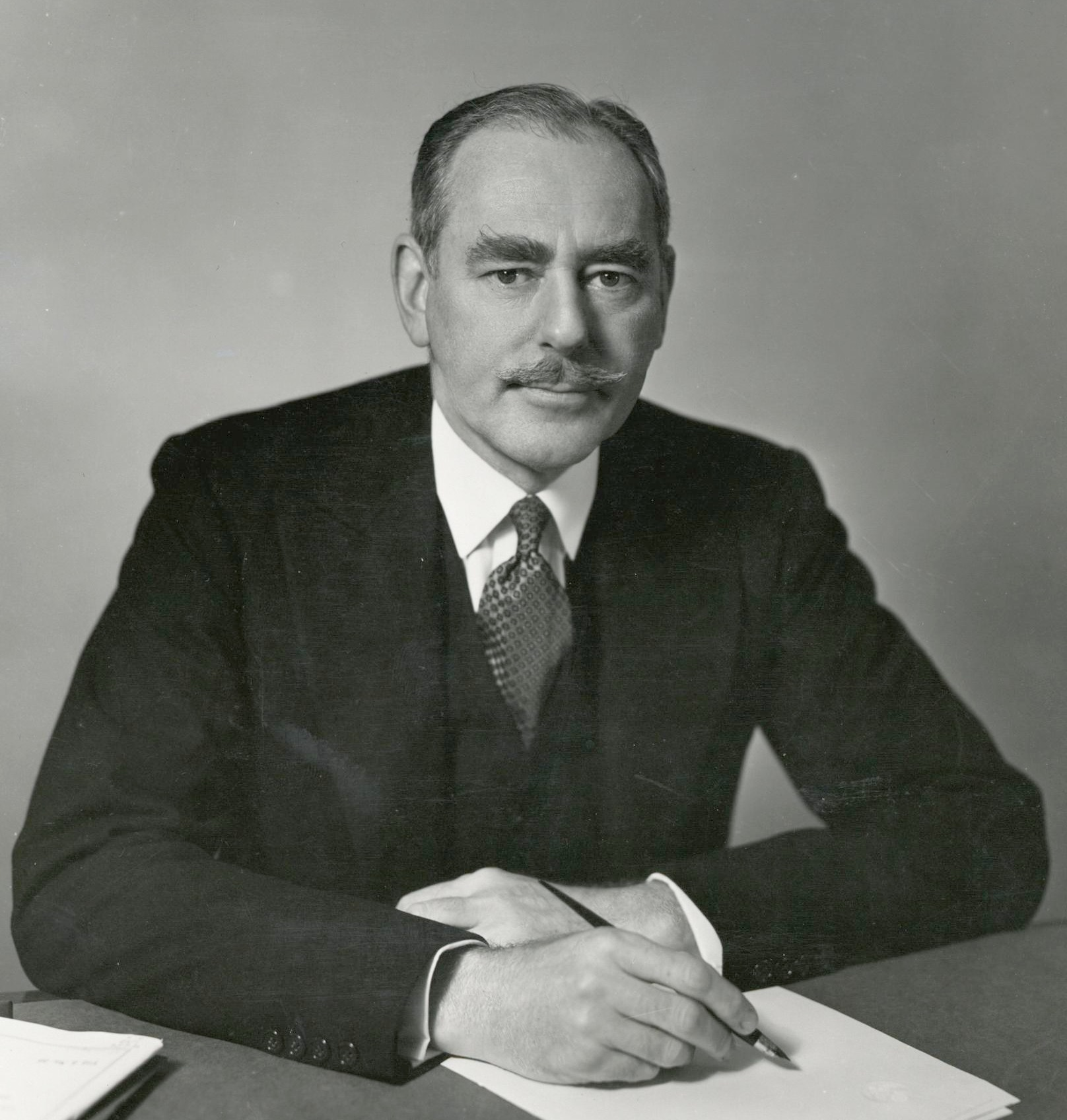 Dean G. Acheson, U.S. Secretary of State, January 21, 1949 to January 20, 1953